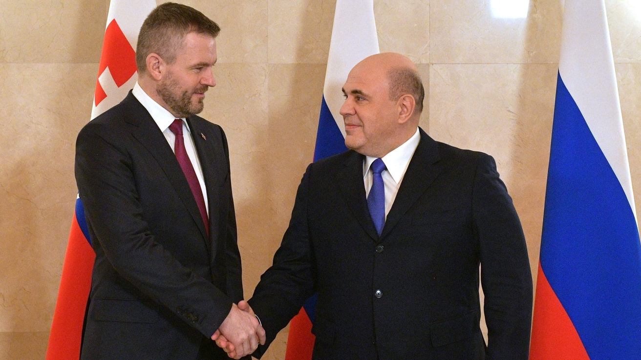 Mikhail Mishustin’s meeting with Prime Minister of Slovakia Peter Pellegrini